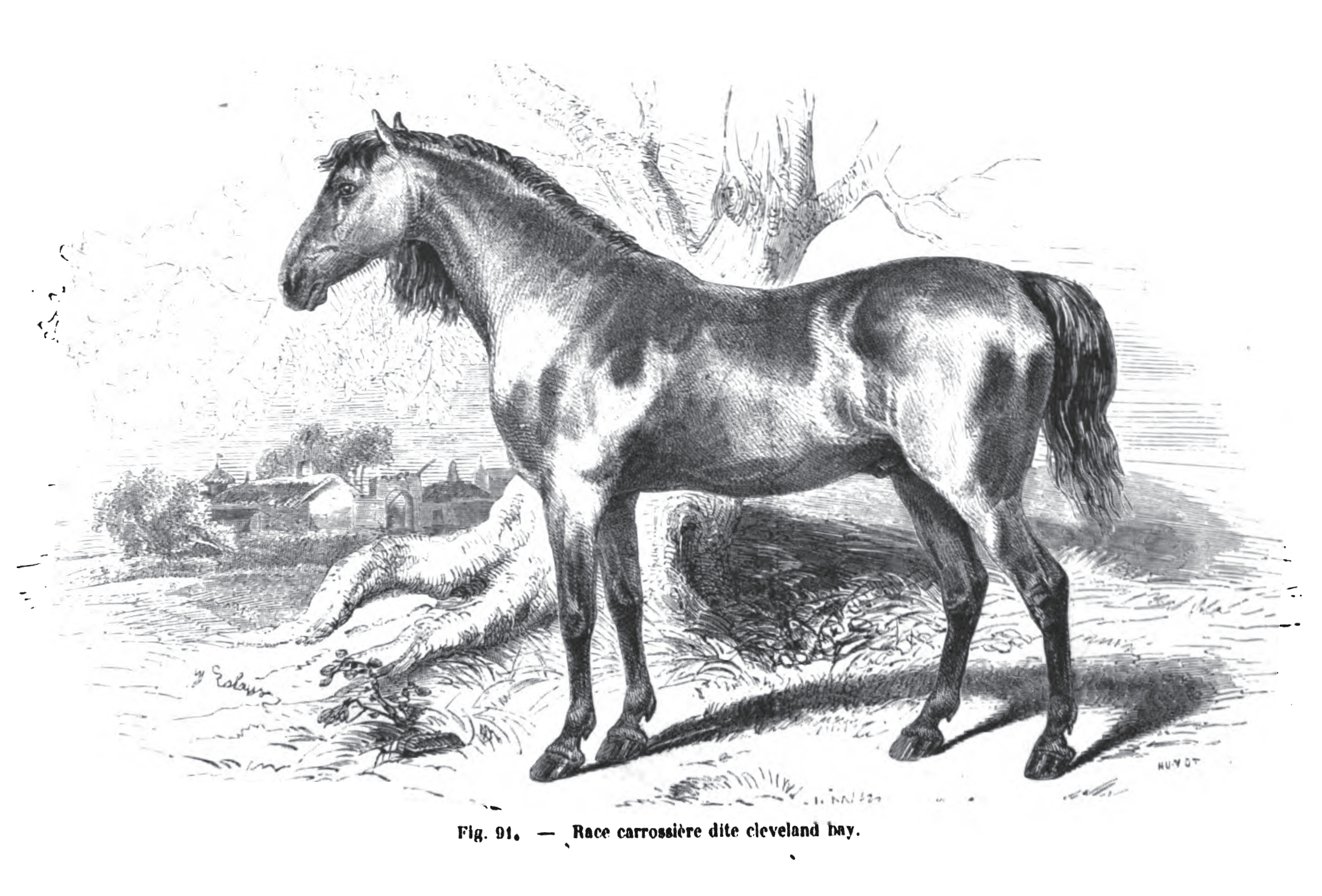 Yorkshire Coach Horse